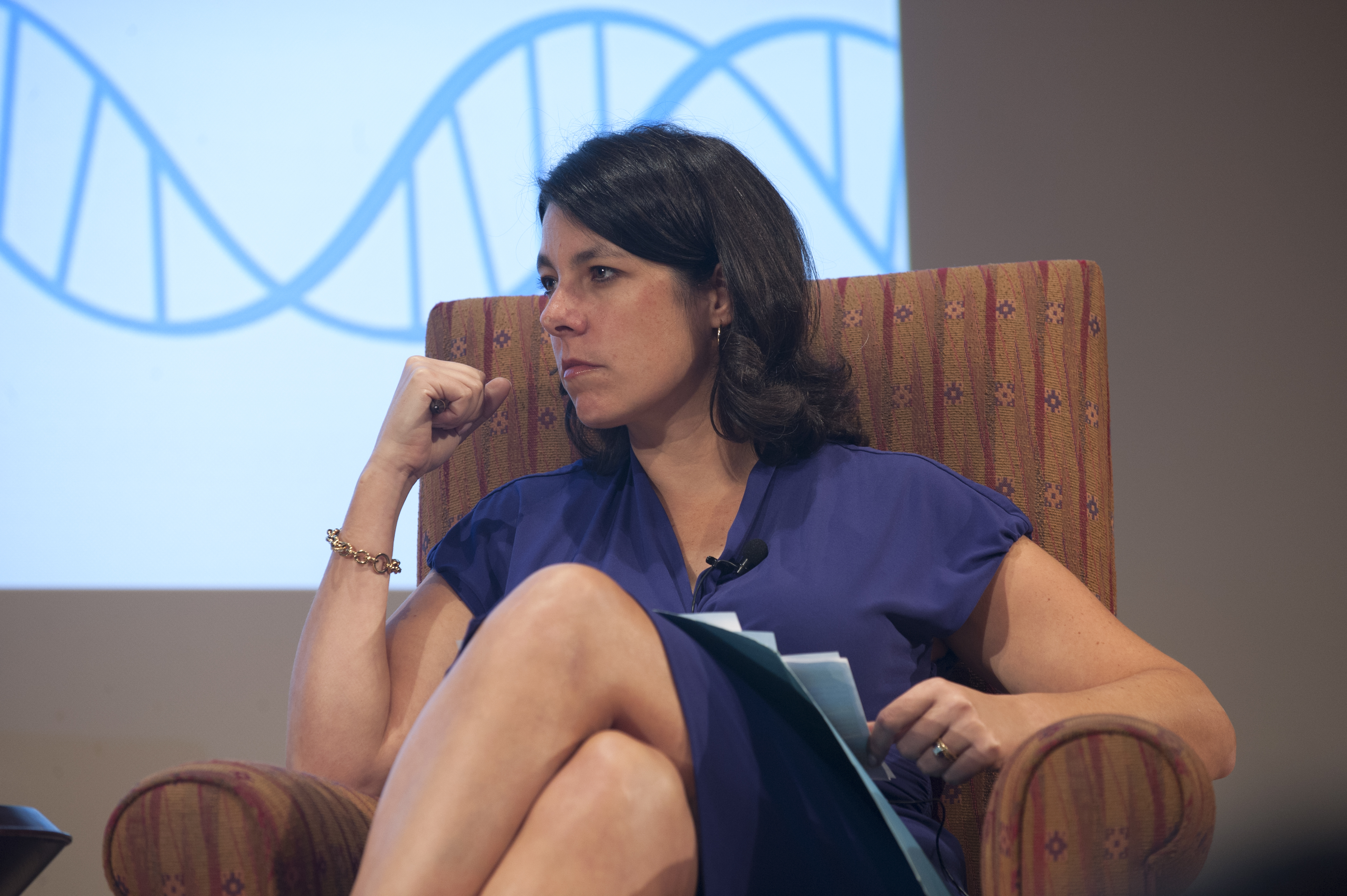 Smithsonian Associates' Rebecca Roberts moderates the evening program, A Conversation with Carolyn Hax: Ask Me About Health, Genetics, and Dealing with Diesease at the Genome: Unlocking Life's Code Closing Symposium. Baird Auditorium National Museum of Natural History Smithsonian Institution Washington, D.C.